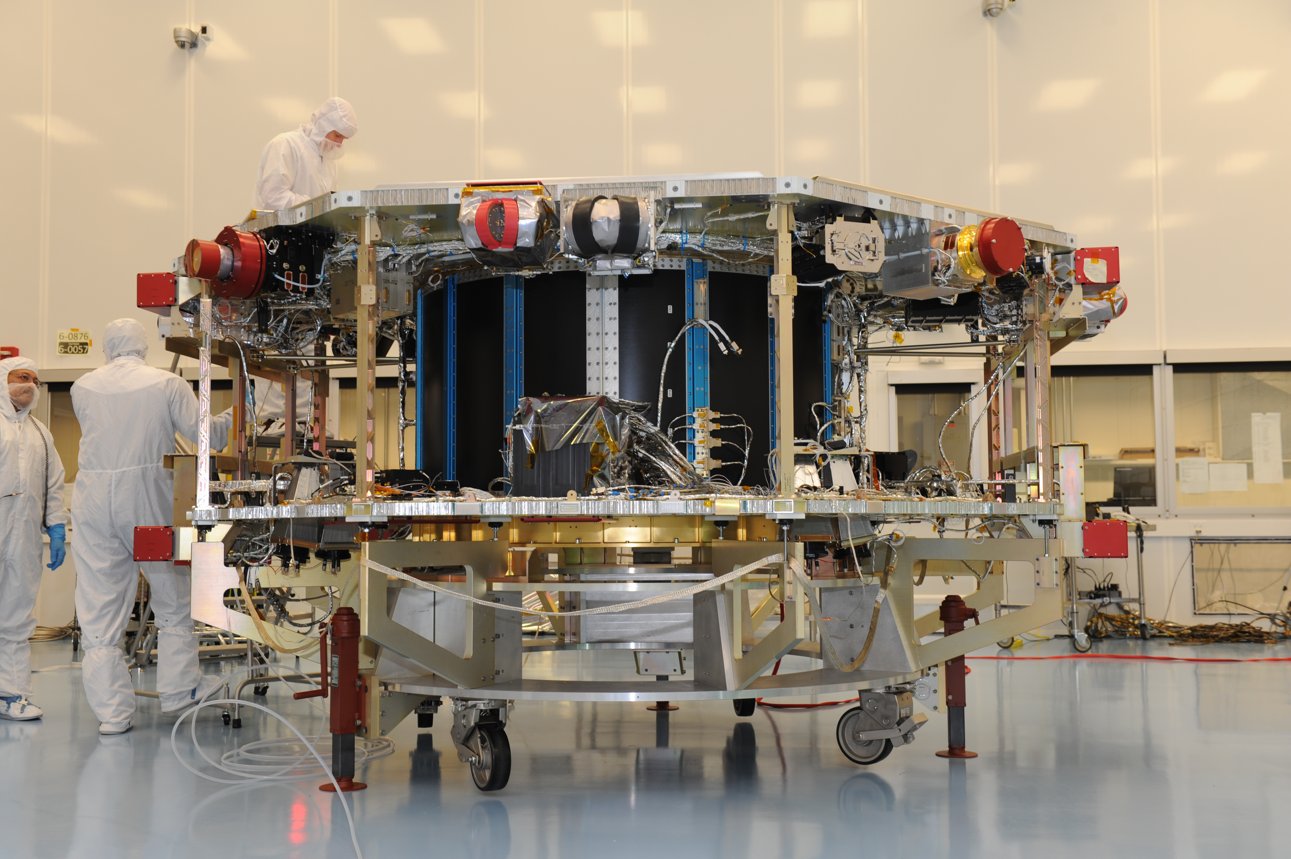 Integration of the satellite n°2 of the space Magnetospheric Multiscale Mission (MMS)